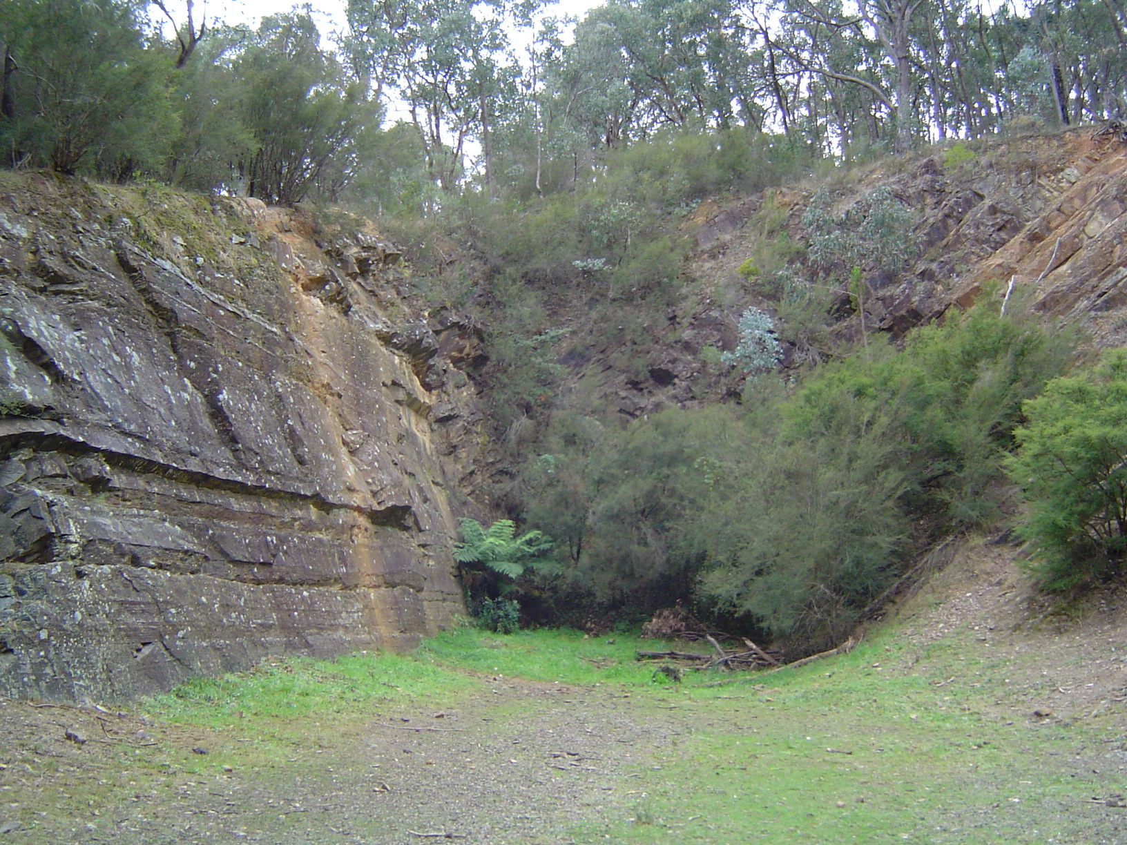 A quarry used to mine rock to build buildings and structures in Warrandyte during the gold rush. Image taken by me in 2005.